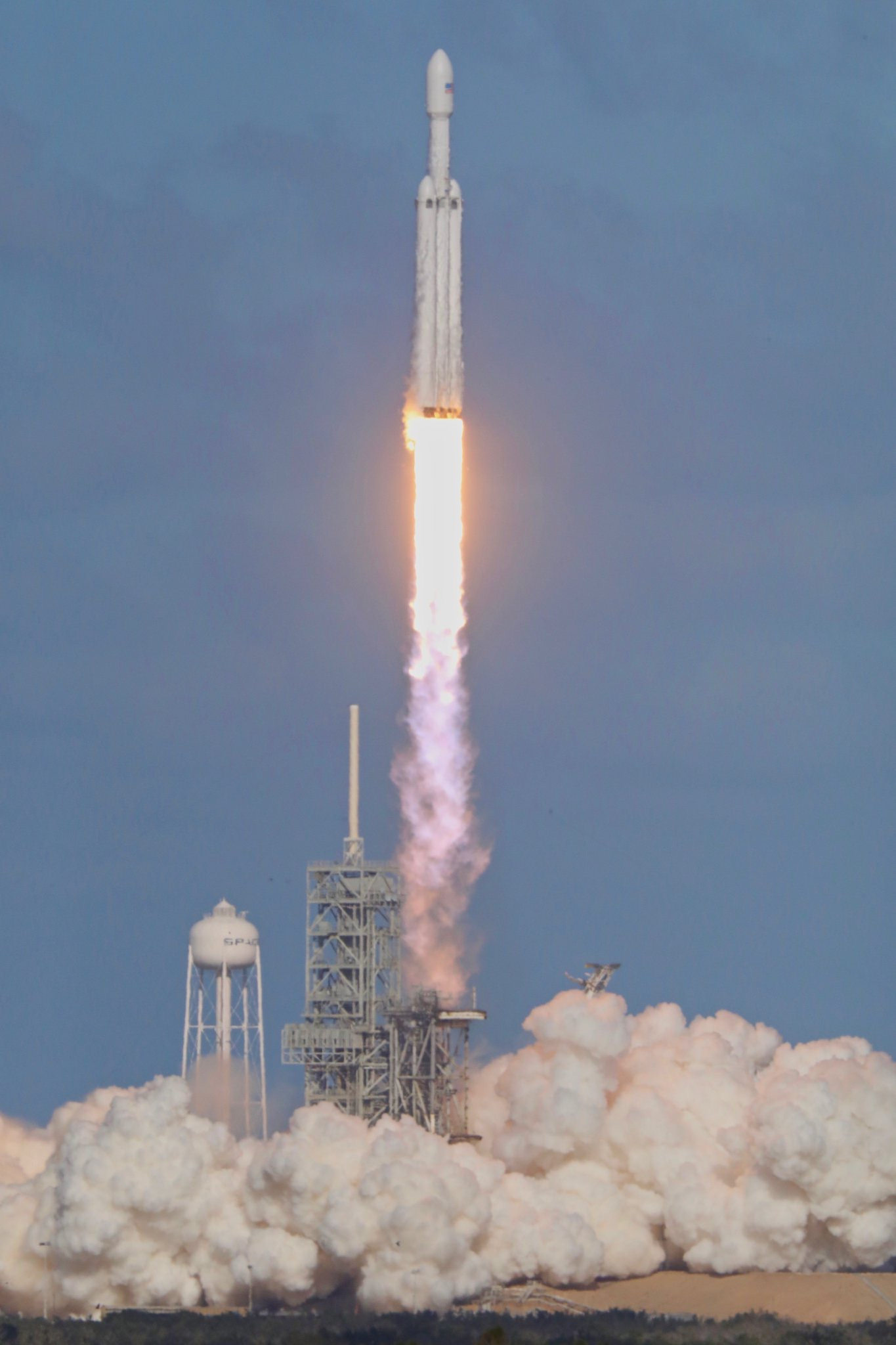 Falcon Heavy launches for the very first time from launch pad LC-39A